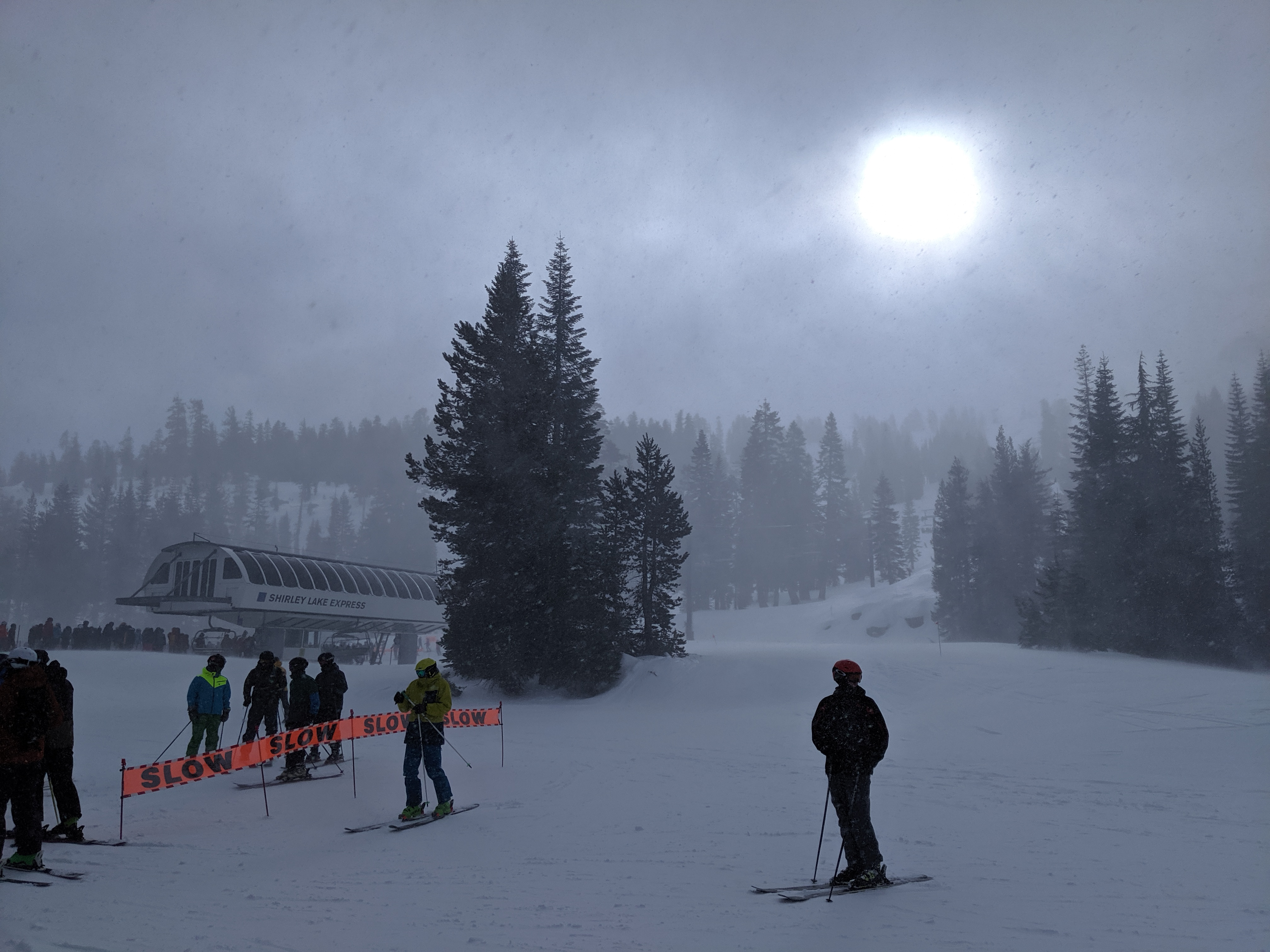 Shirley Lake Express, Squaw Valley, California